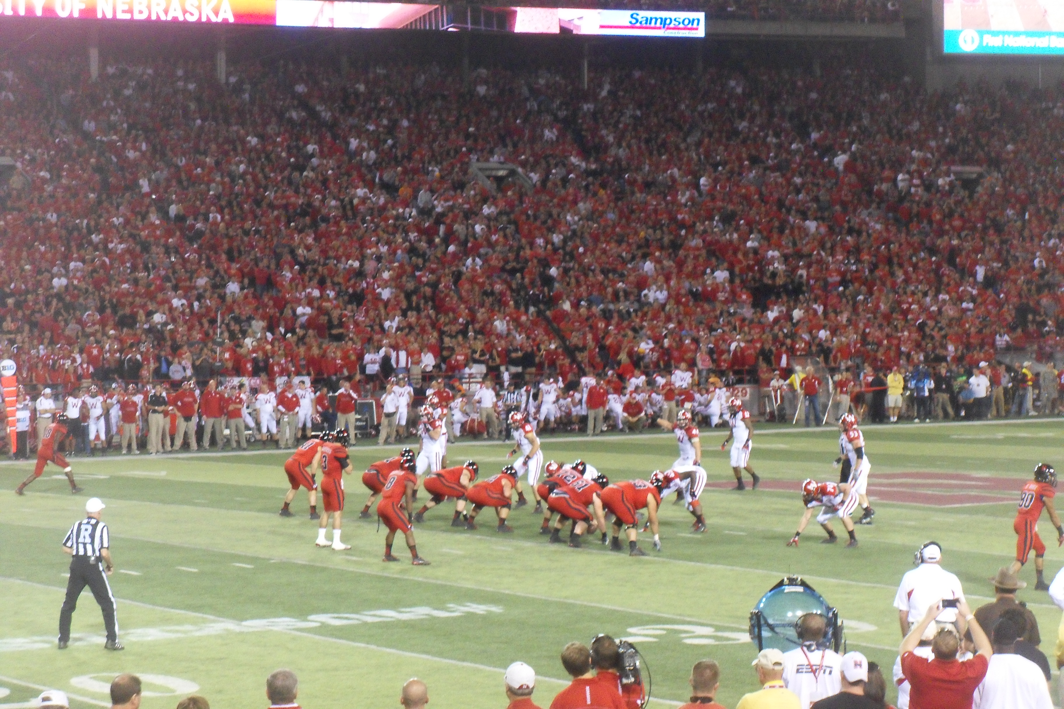 Nebraska homecoming game against Wisconsin wearing alternate uniforms created by Adidas.